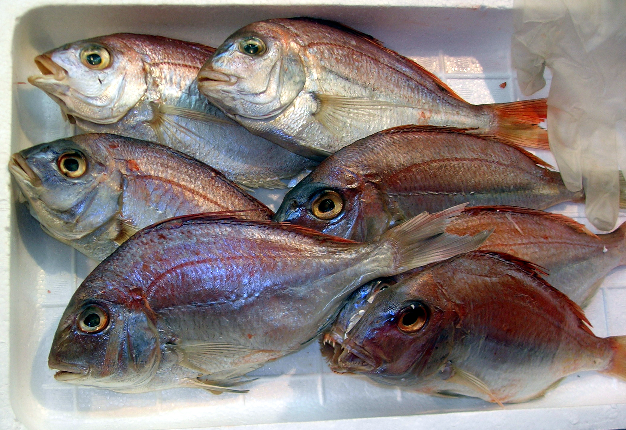 Red sea bream (Pagrus major) sold at a fish store in Ueno, Japan